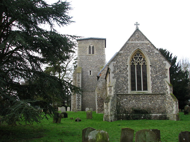 St Mary's Church St Mary's church is located beside Church Road; like a number of other churches in this area, its tower is on the south side rather than at the west end of the church. Sadly, this church is kept locked.